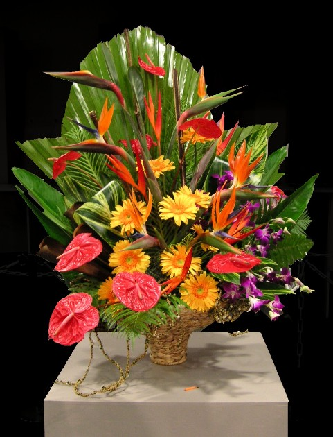 Sydney Royal Easter Show